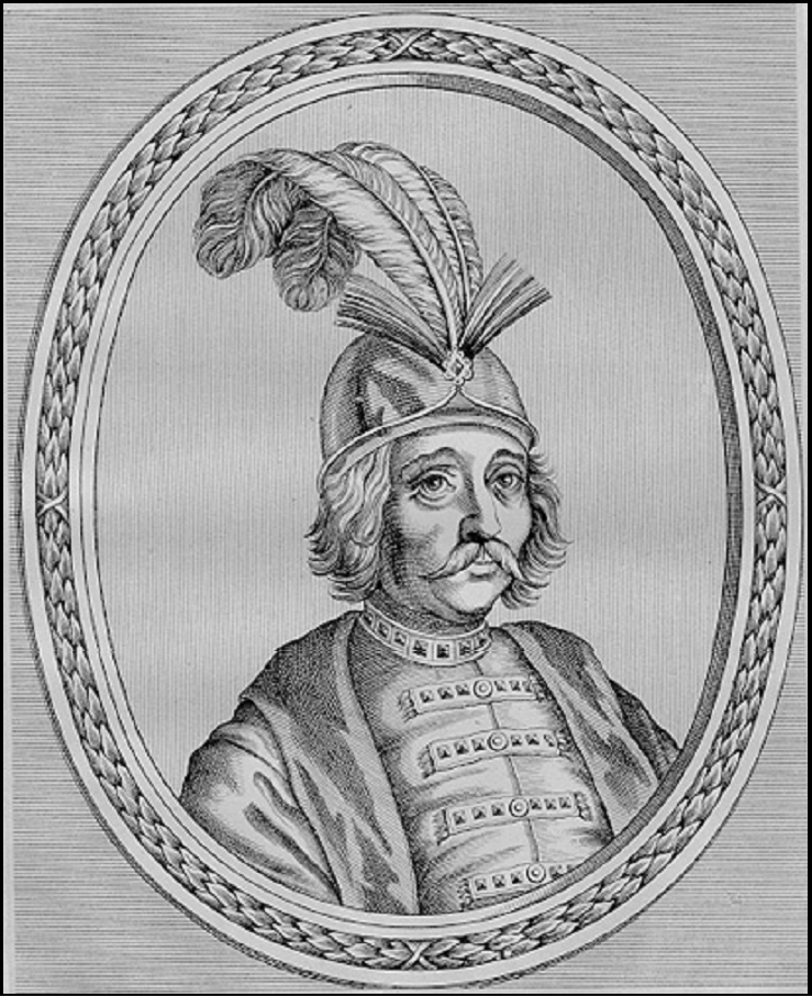 Gheorghe Ştefan, Prince of Moldavia